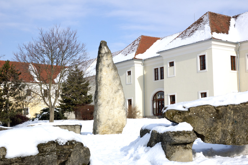 A megalithic monument (standing stone) in Holíč, Slovakia (address: Bernolákova ul. 2,4).